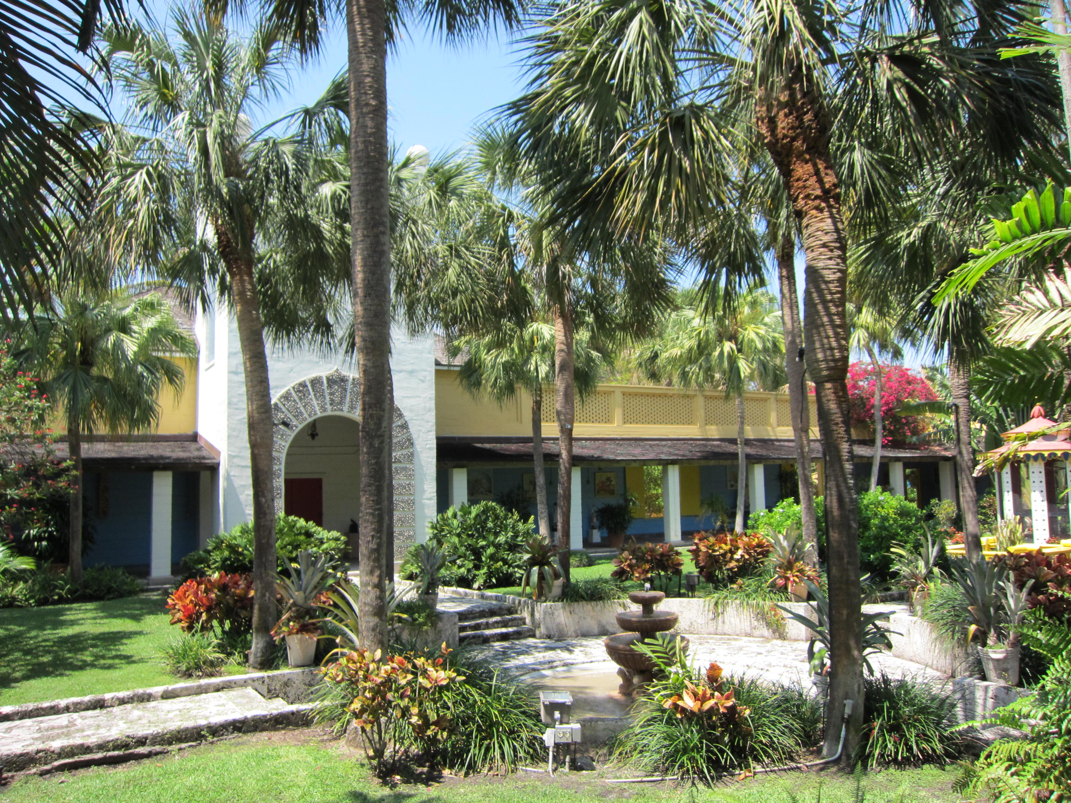 Main House of the Bonnet House Museum & Gardens, 900 North Birch Road, Fort Lauderdale, Florida.